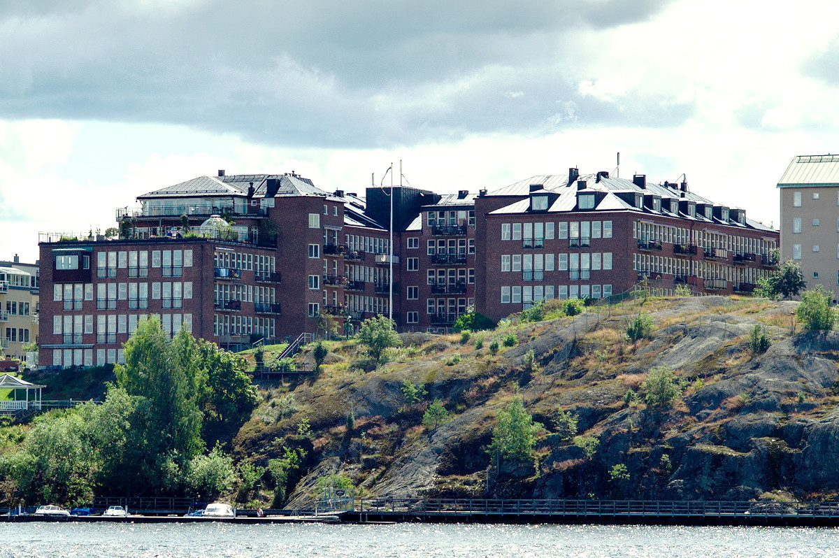 Sjöfortet, Gröndal, Stockholm